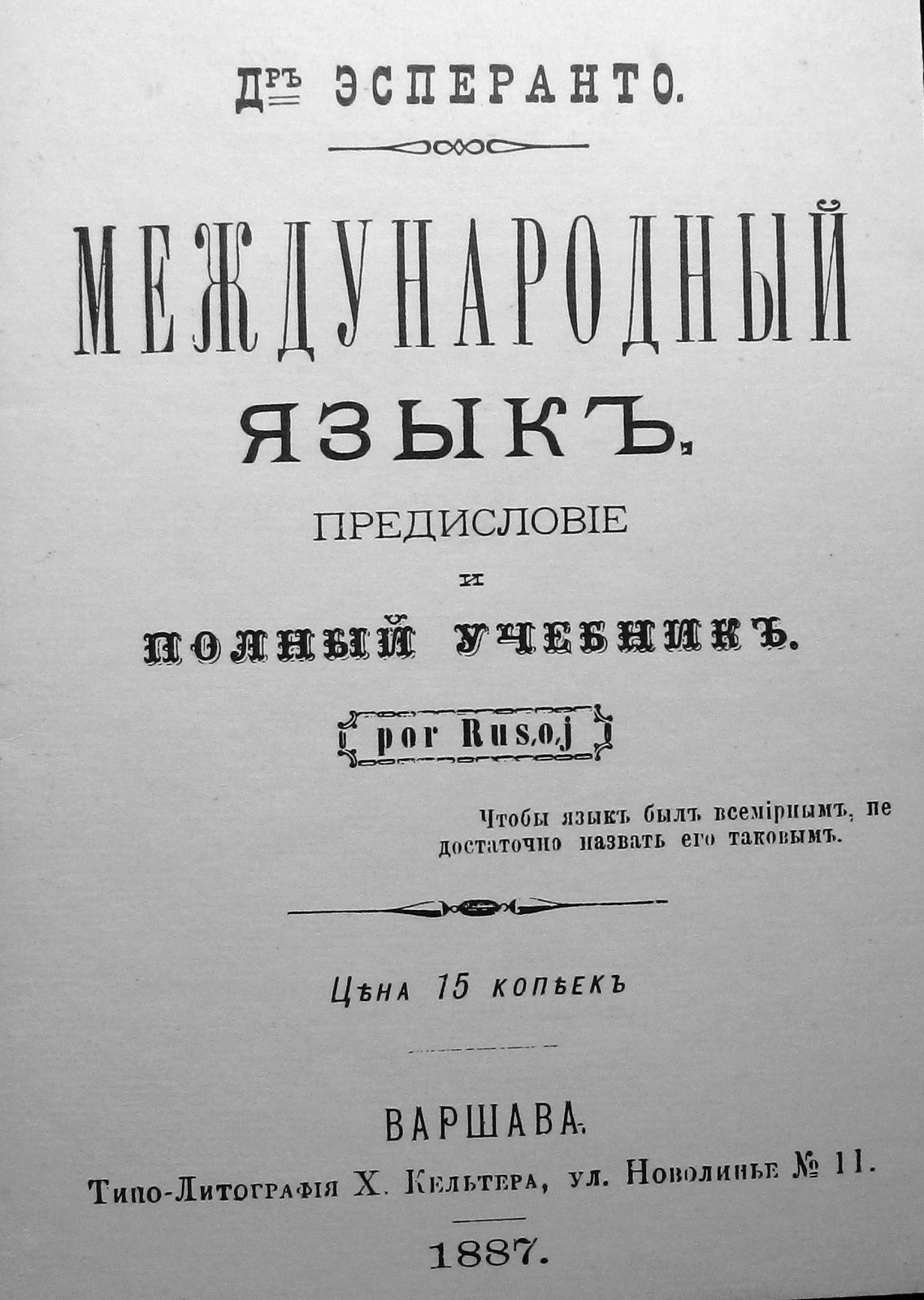 Front page of the first (Russian edition) “First Book” of Esperanto, Warsaw, 1887.